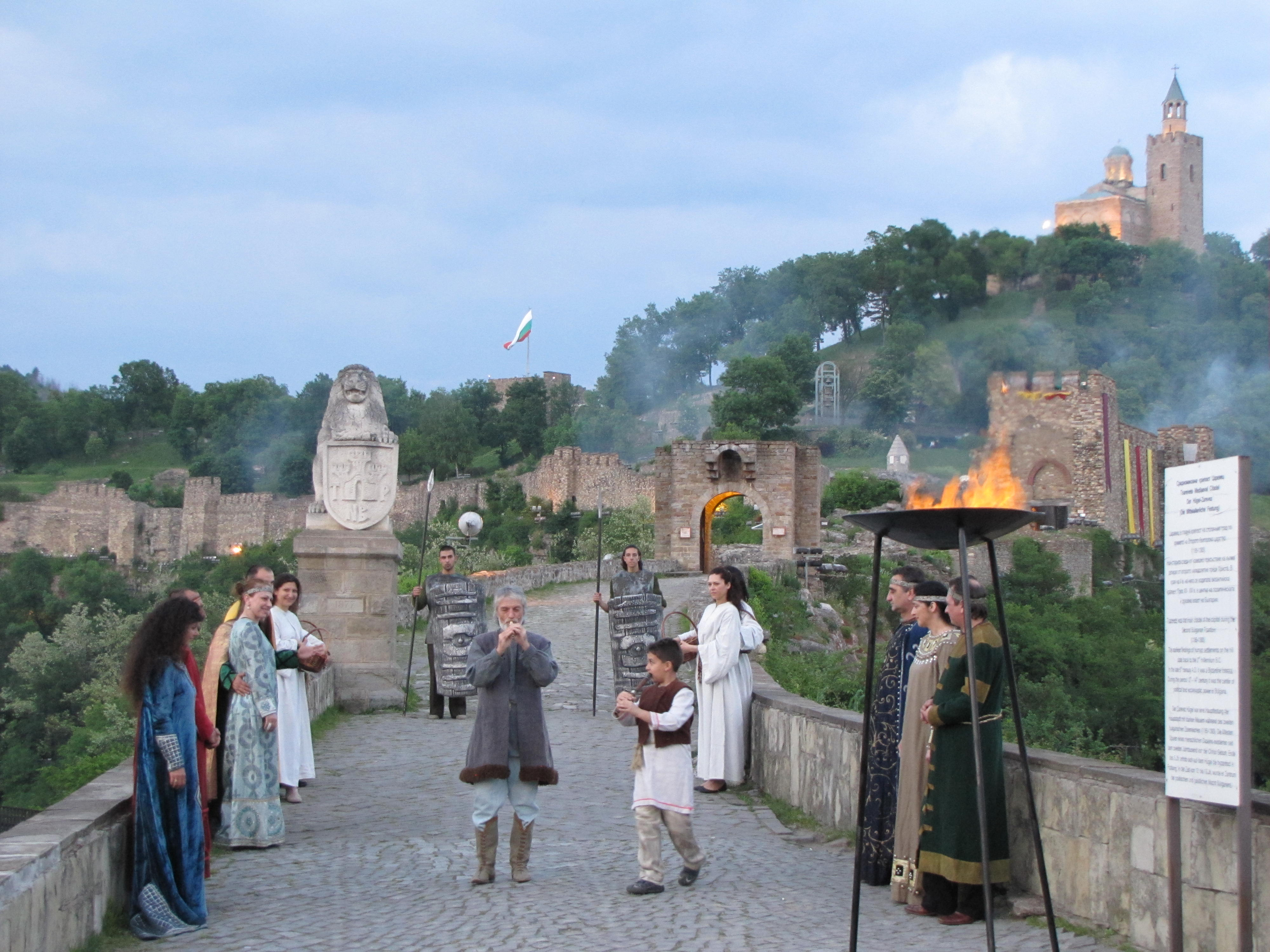 Tsarevets (fortress) with Patriarchal Cathedral of the Holy Ascension of God